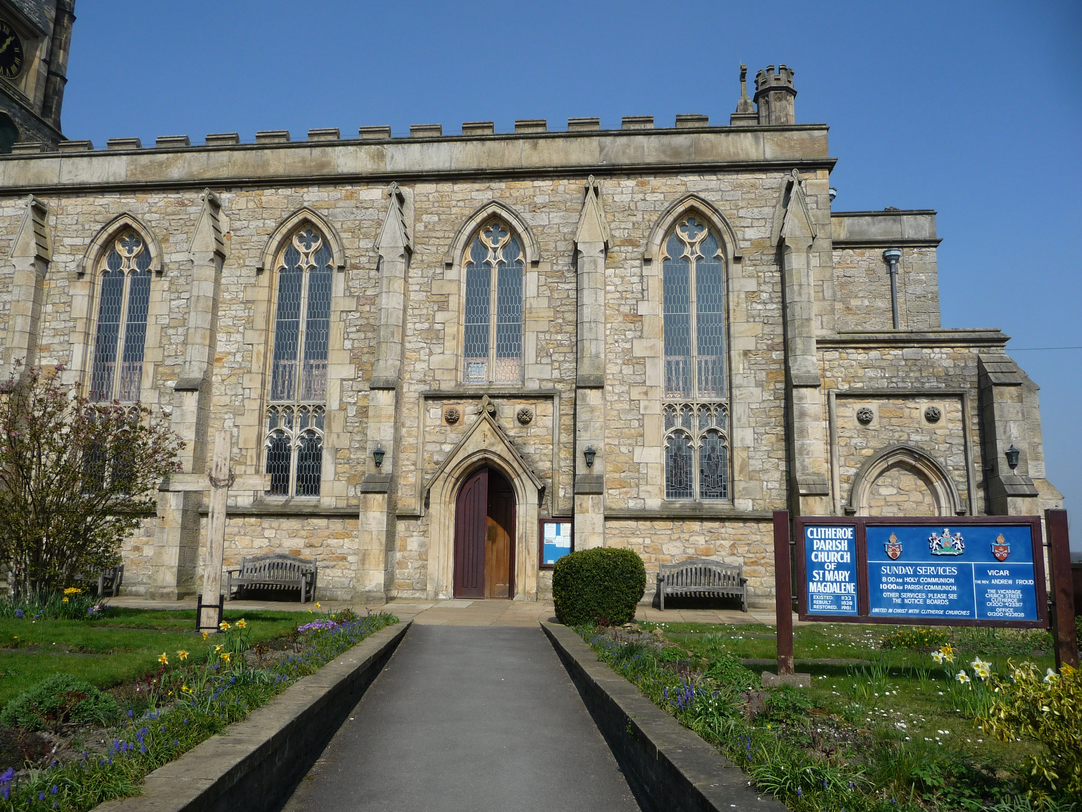 St. Mary Magadalene in Clitheroe, Lancashire